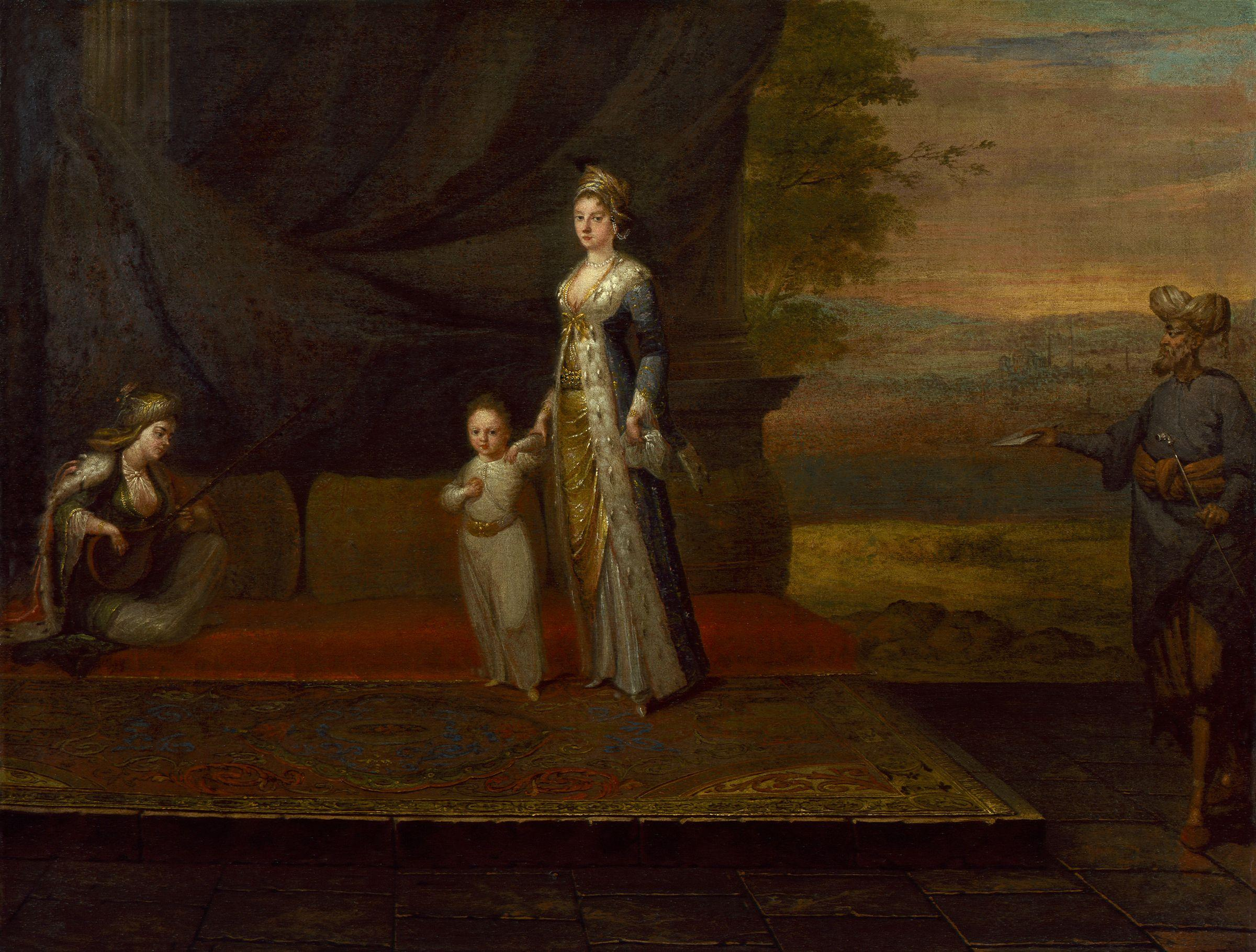 Lady Mary Wortley Montagu with her son, Edward Wortley Montagu, and attendants, by Jean Baptiste Vanmour (died 1737). All images in this batch have been confirmed as author died before 1939 according to the official death date listed by the NPG.